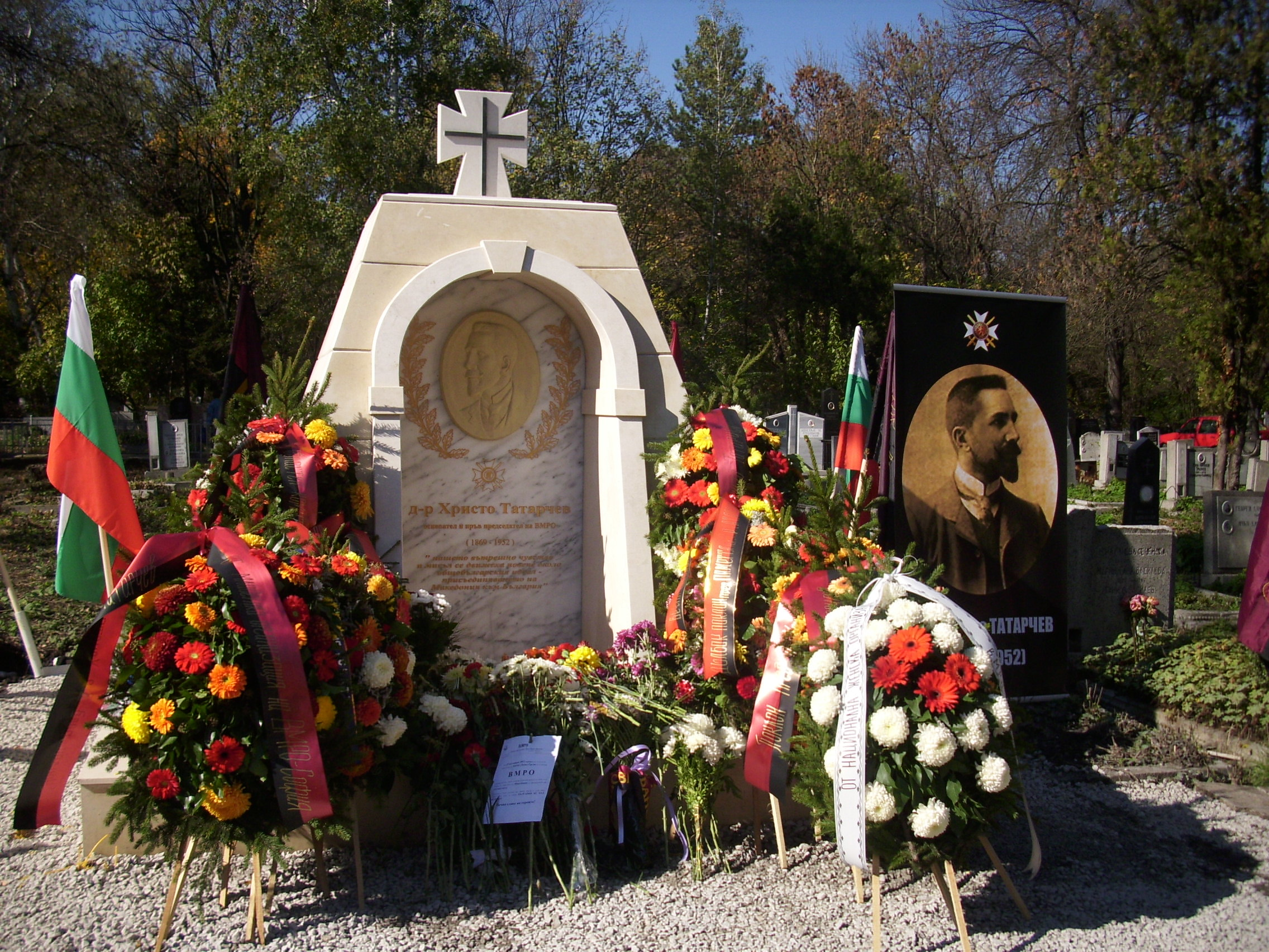 Паметник мавзолей на д-р Татарчев, автор - арх. Миломир Богданов, скулптор Стефан Ташев, строител каменоделец Димитър Антов - X.2010